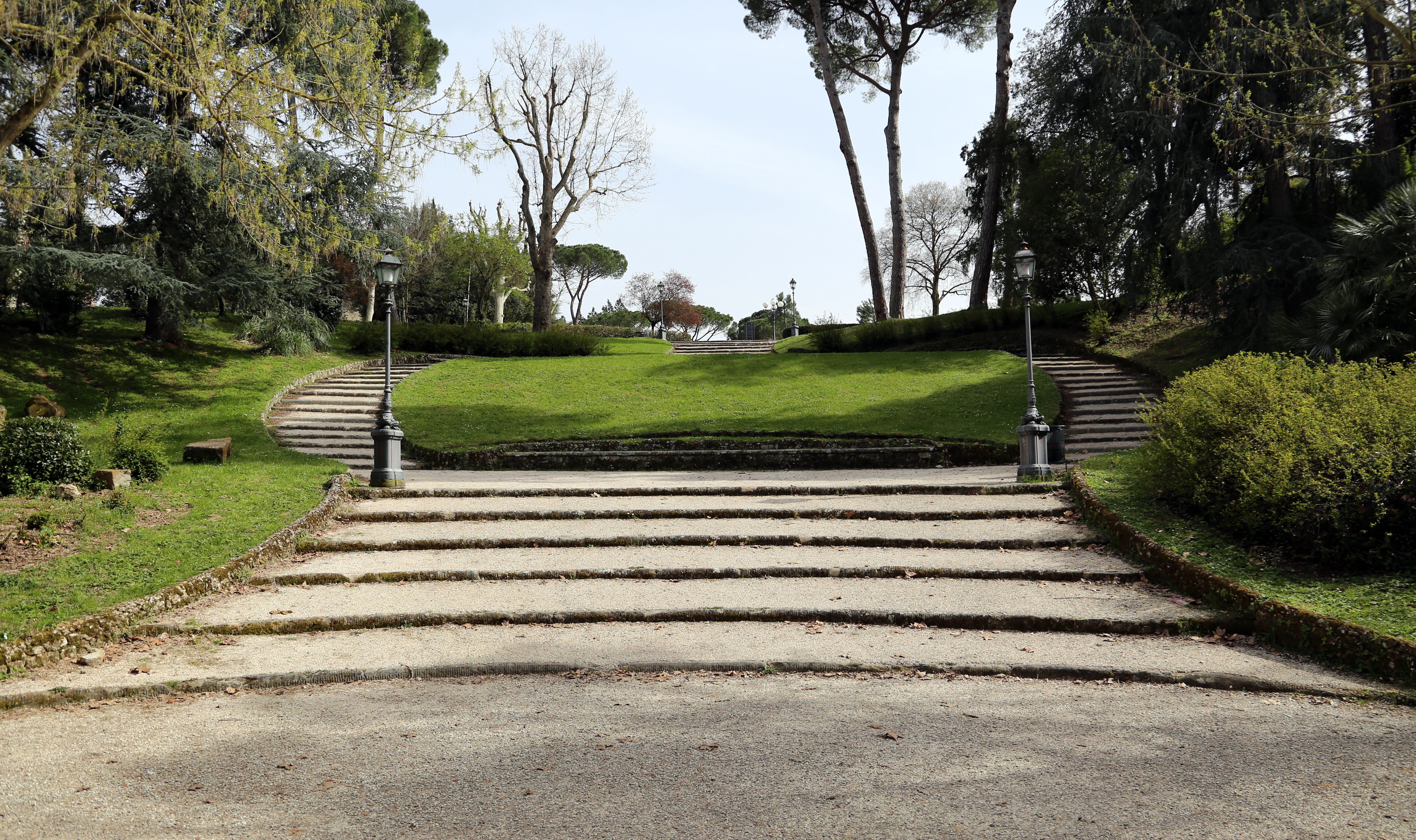 Bobolino